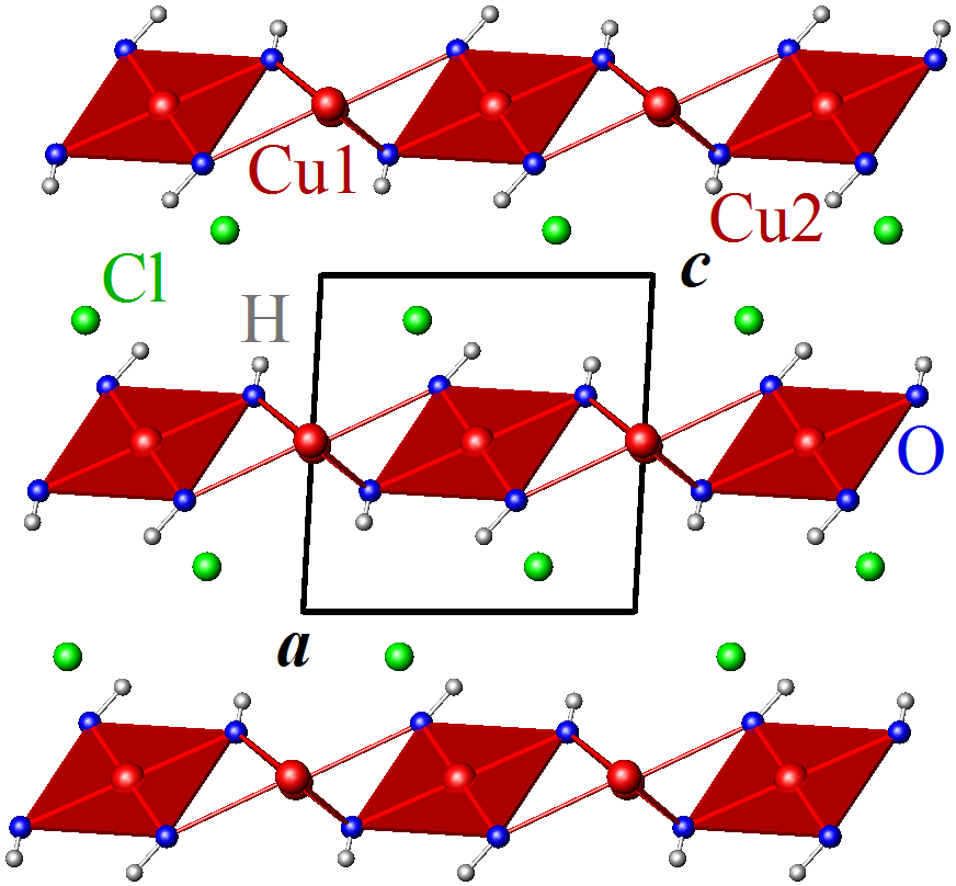 Crystal structure of botallackite, Cu2Cl(OH)3, P21/m, projected onto the (a,c) plane. Red: copper, green: chlorine, blue: oxygen, gray: hydrogen.